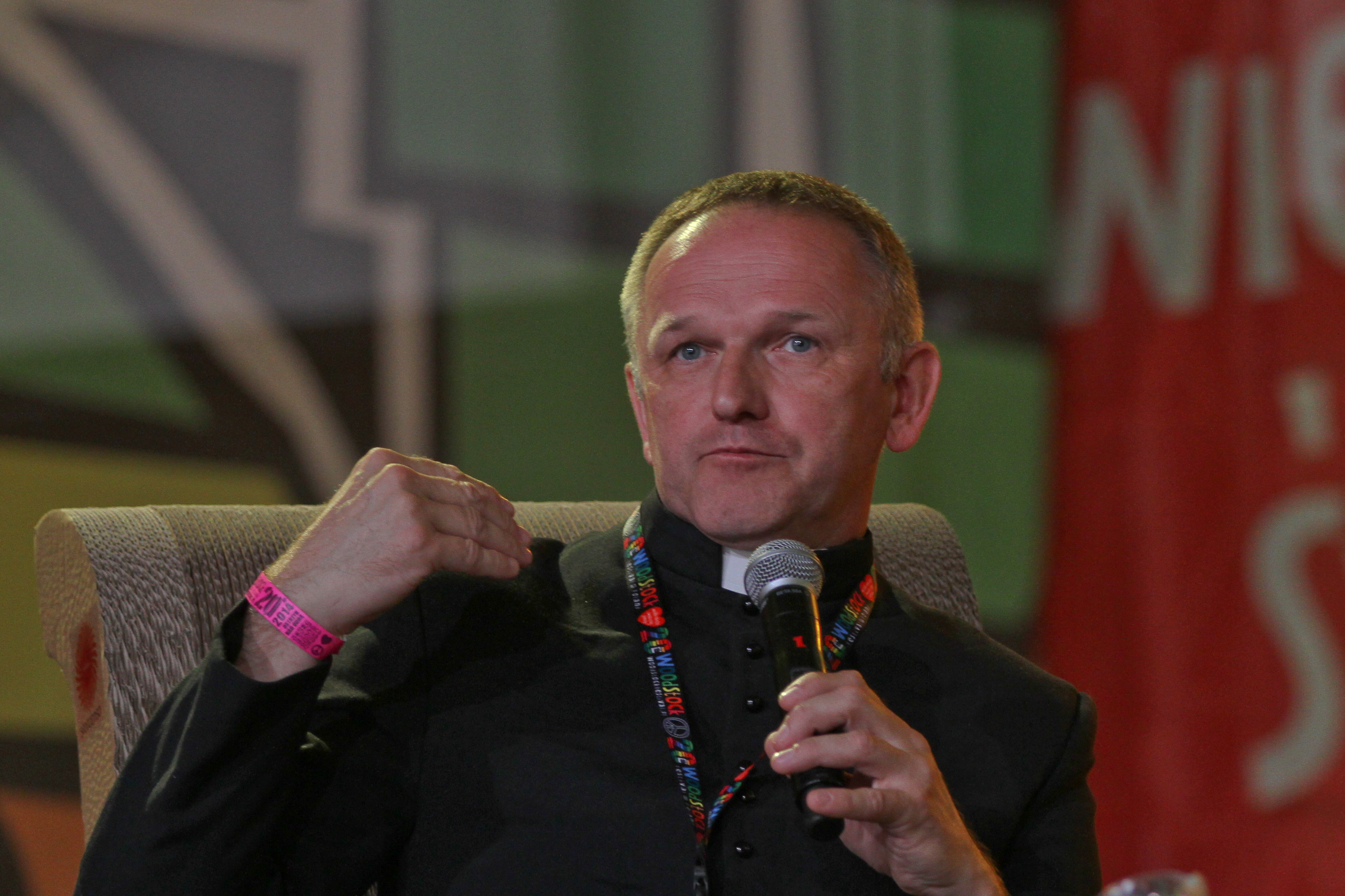 Przystanek Woodstock 2014.